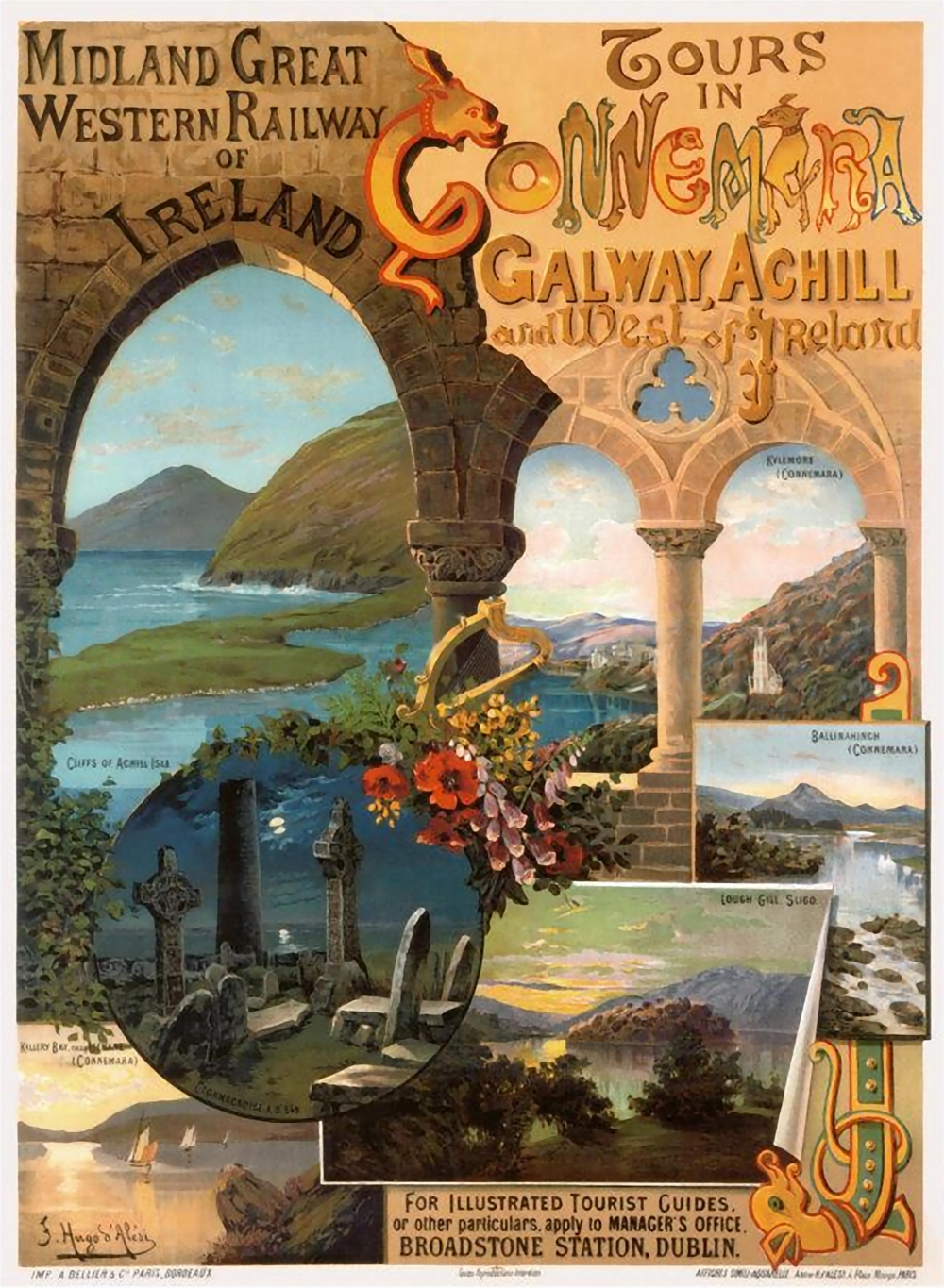 Poster of the Midland Great Western Railway of Ireland